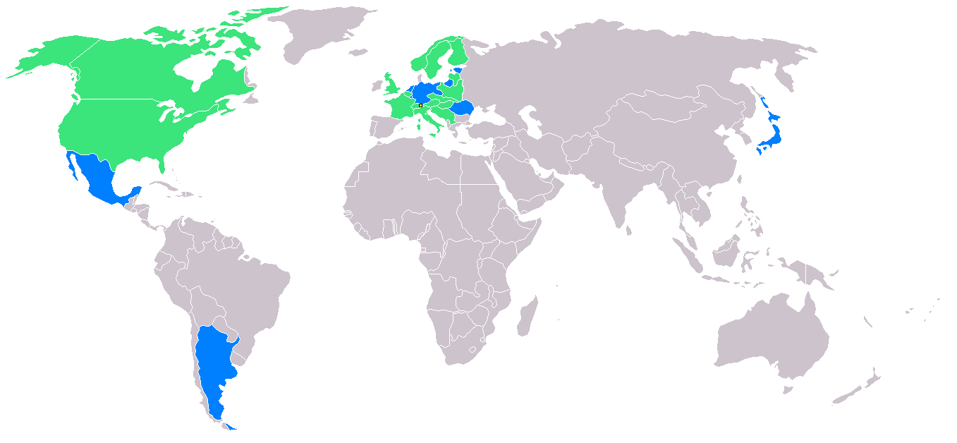 Countries which participated in the 1928 Winter Olympics. Blue = Participating for the first time at Winter Olympics Green = Have previously participated at Winter Olympics Yellow square is host city (St. Moritz).